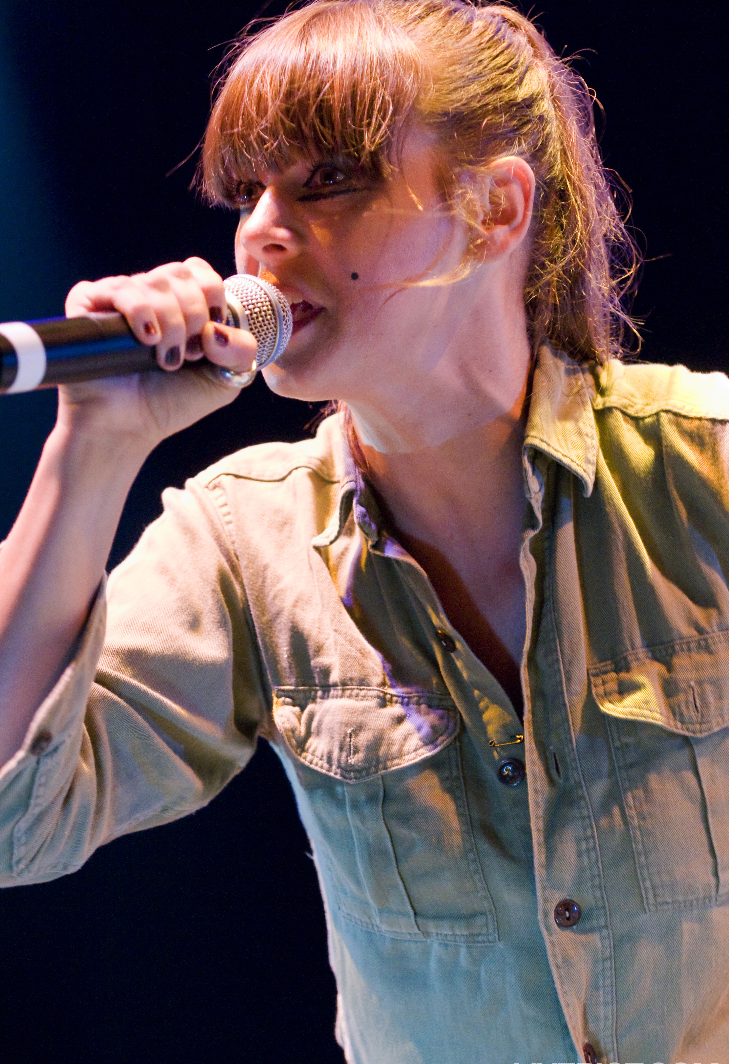 Cat Power. Performing a live concert in the Primavera Sound 2008, Barcelona, May 2008.